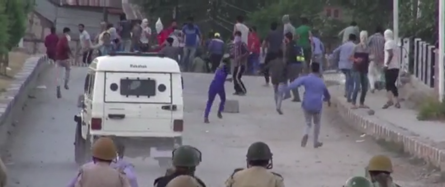 Indian security forces and pro-separatists demonstrators in Srinagar